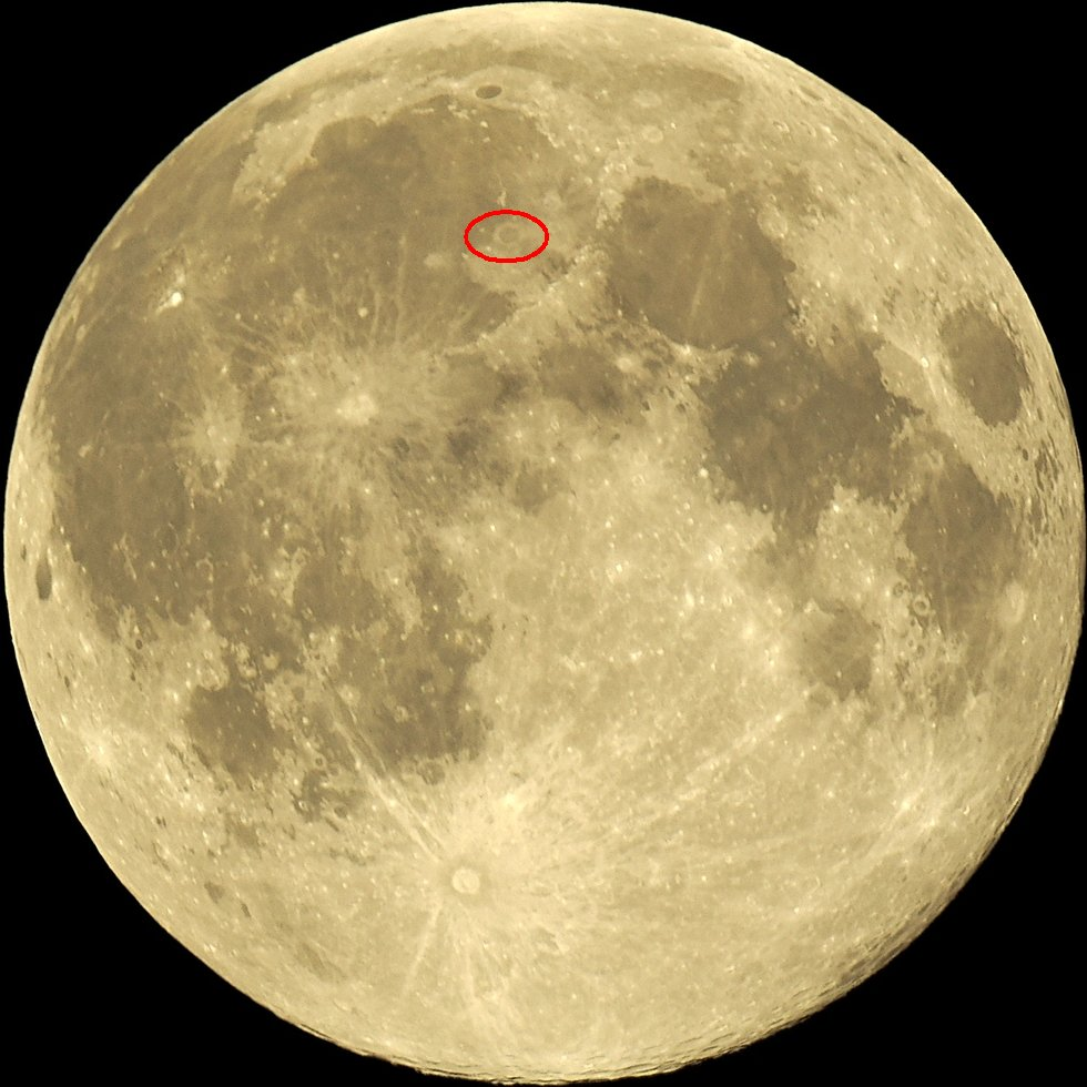 Location of crater Archimedes on the Moon